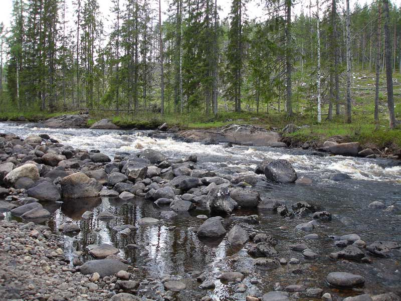 The river Granån close to Bratten in Lycksele municipality in northern Sweden, not far from the mouth in the river Örån. Large stones have been removed from the rapids to facilitate log driving.